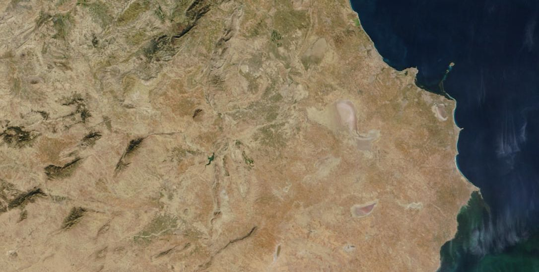 Le centre-Est de la Tunisie